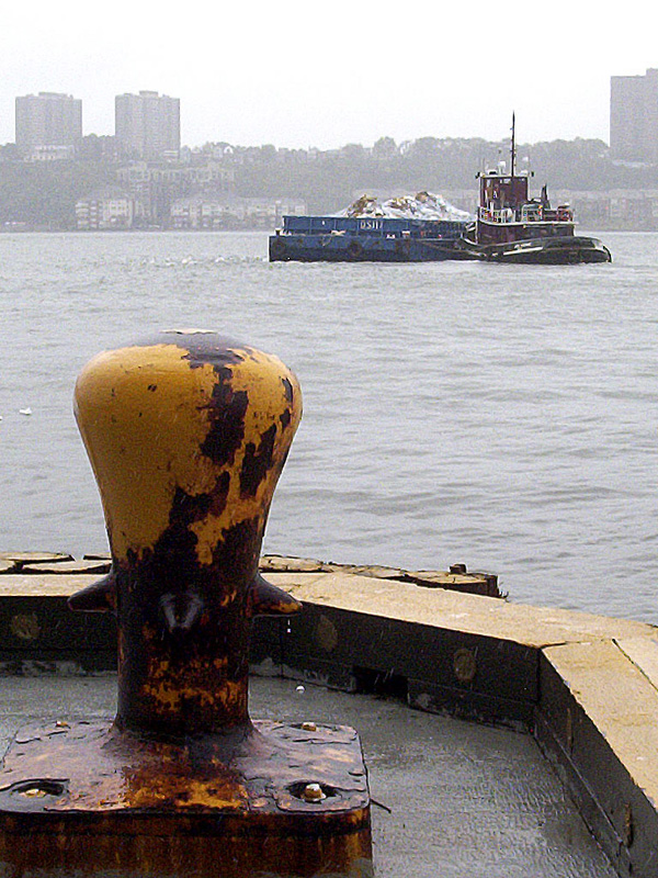 Hudson River recycling barge. Photo taken in 2005 during the annual "Open House New York"' (OHNY) for a weekend touring through private homes, buildings and locations usually closed to the public in the five Boroughs. In this case, a paper recycling operation, where dedicated trash trucks pick up only recycled paper and drive to "the tipping floor" on a pier in the Hudson River to dump the contents into a barge positioned in the water below. The barge is pulled by a tug boat to another borough, Staten Island, New York, where the recycled paper is processed.